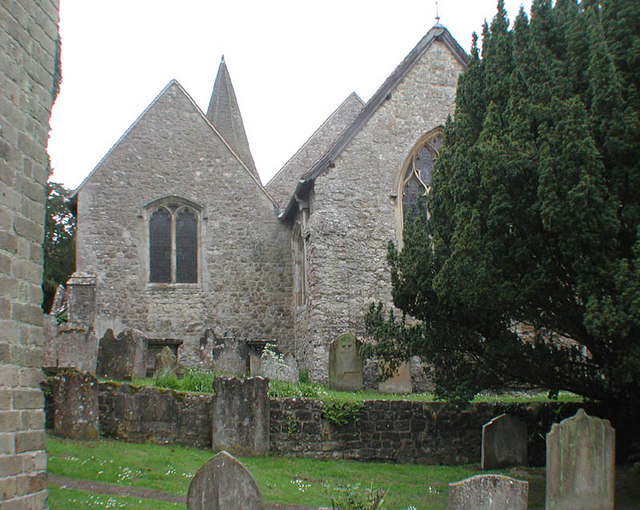 All Saints, Loose, Kent